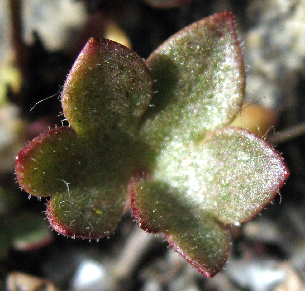 Saxifraga cernua close-up of leaf photographed in midnight sun next to a house in Upernavik, Greenland. Cropped version of original photo.